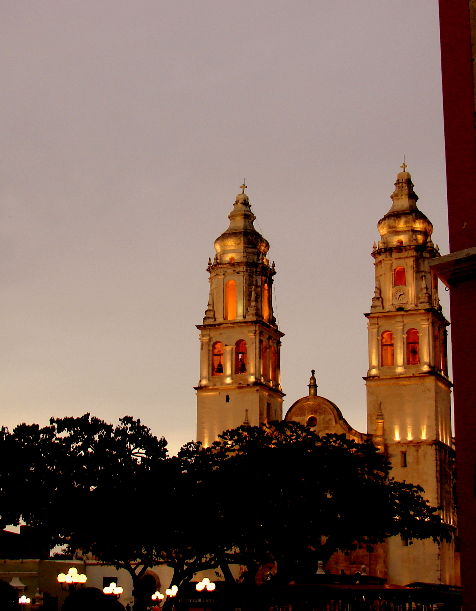 Cathedral of Campeche City, Campeche, Mexico